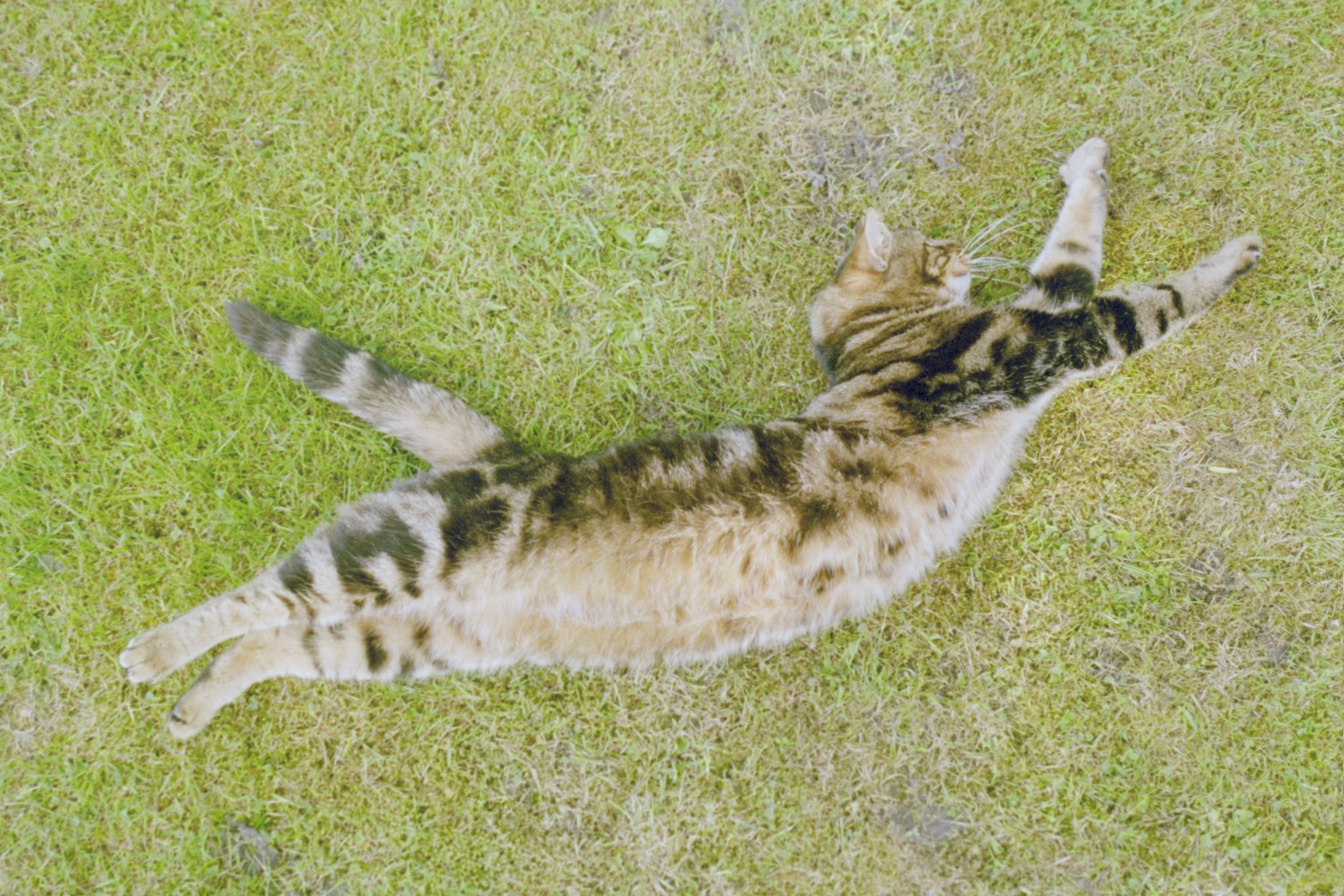 Cat stretching out full length on the grass.